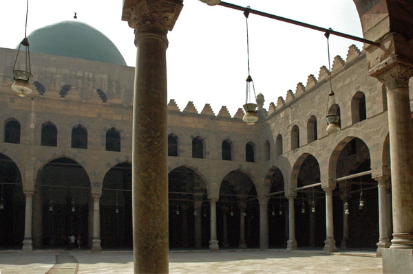 Al-Nasir Muhammad Mosque. Cairo. Egypt